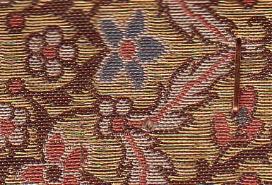 Taqueté